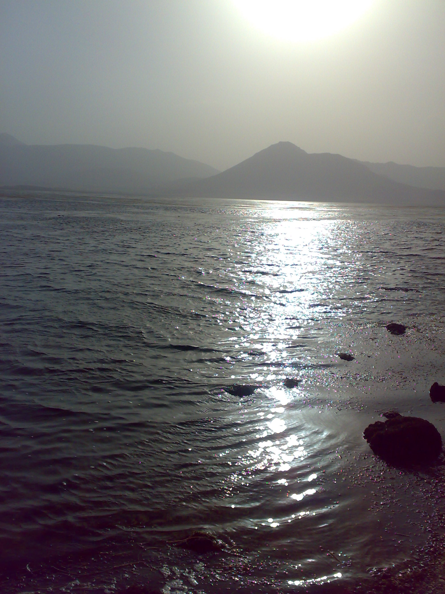 Chugha Khur wetland, Chaharmahal and Bakhtiari province, Iran.